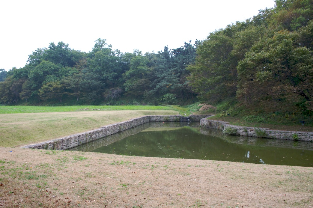 What remains of the moat oustide the wall. Korea Gyeongju 20061017 IMG_8846.jpg